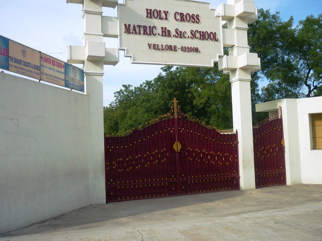 Gates